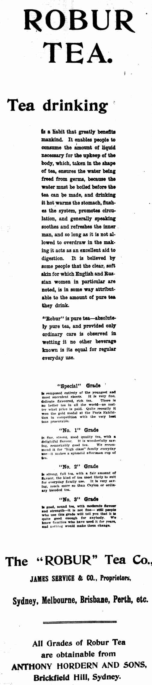 Tea advertising, 1912